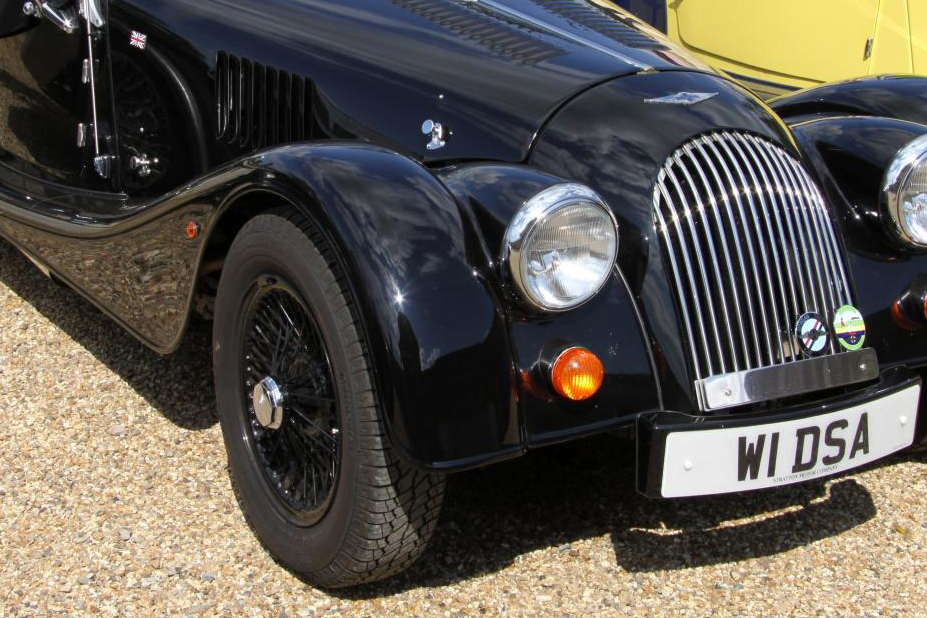 Close up of black on black Morgan 4/4 wire wheels @ the Eastern Counties area for the Morgan Sports Car Club